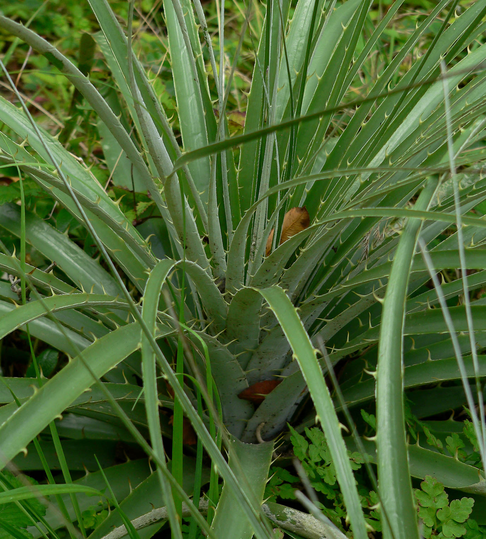 Photo of Puya alpestris at the San Francisco Botanical Garden